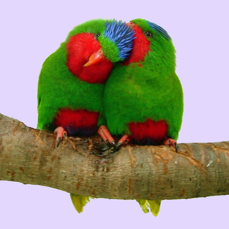 Blue-crowned Lorikeet; two on a perch.